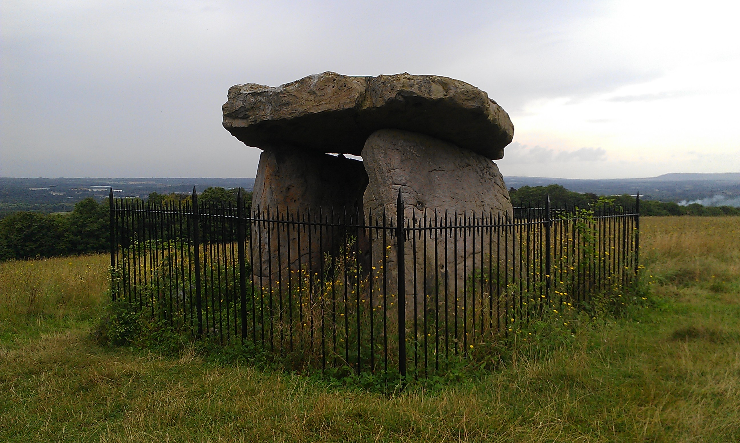 The Early Neolithic chambered tomb of Kit's Coty House in Kent, one of the Medway megaliths.